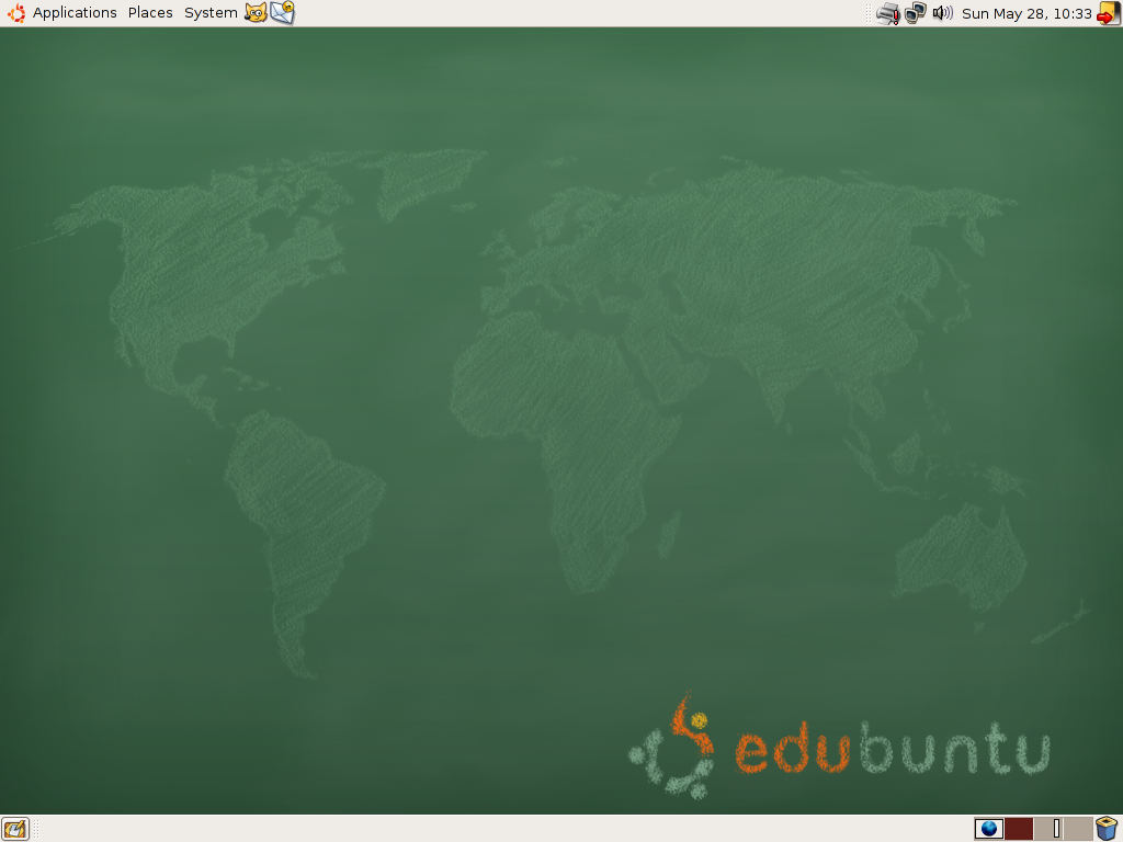 Screenshot of Edubuntu 6.06, taken from